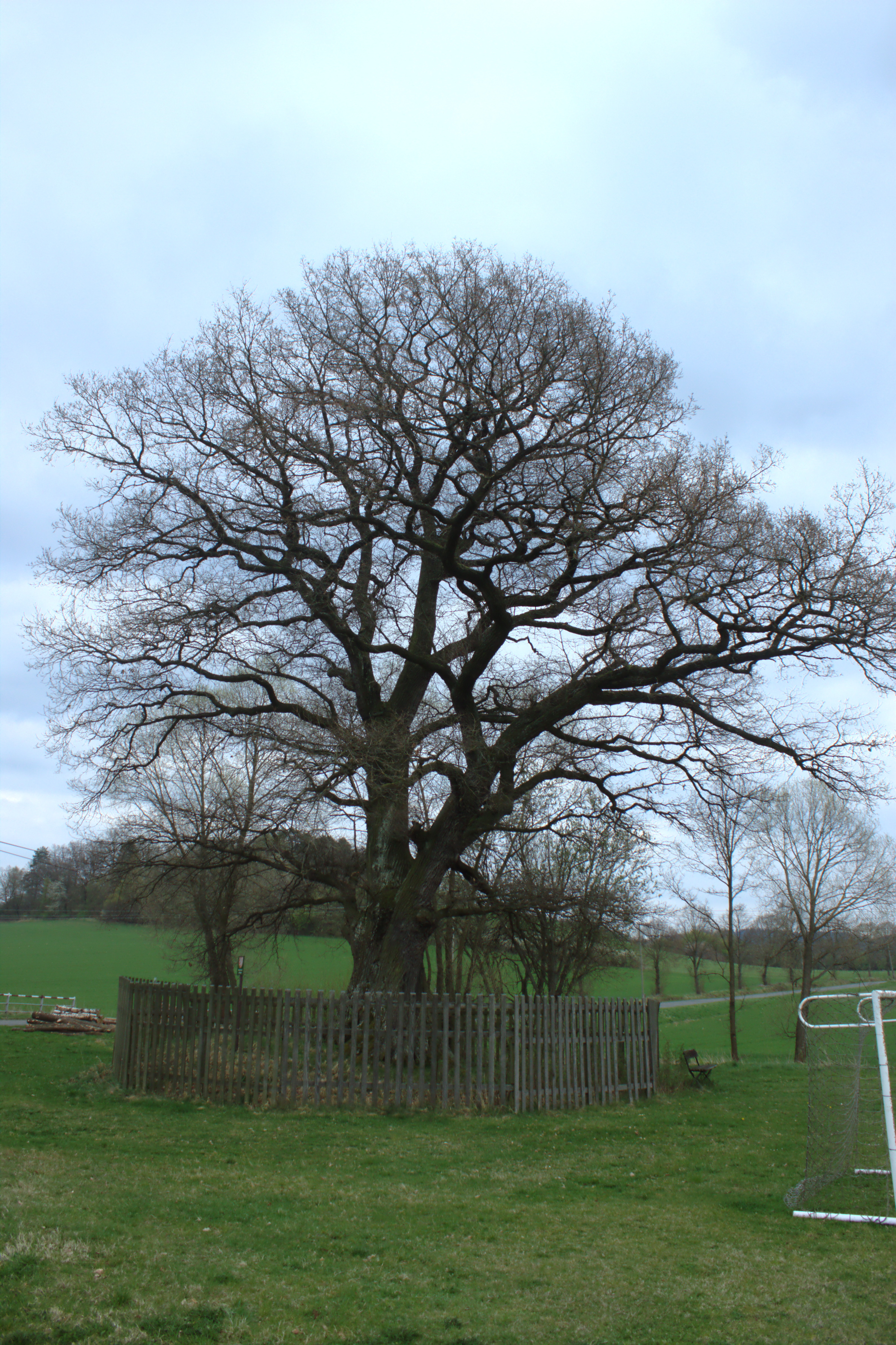 A famous tree at the SE limit of the village of Mokrosuky, Plzeň Region, CZ